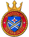 Badge of ENS Vaindlo